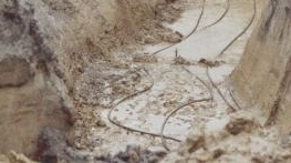 A horizontal collector of a heatpump